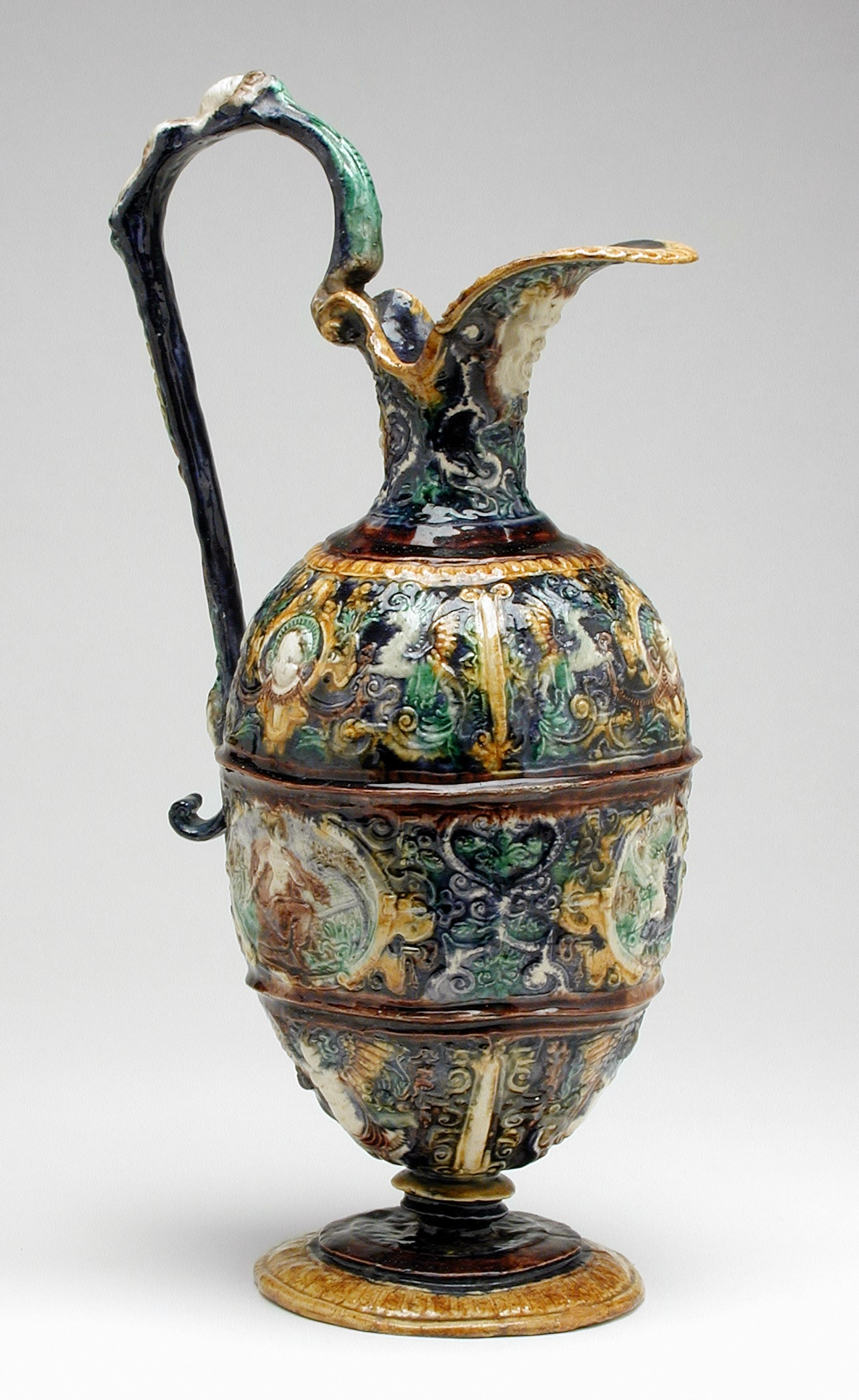 France, circa 1600-1610 Furnishings; Serviceware Lead-glazed earthenware, Palissy ware 10 1/4 x 5 1/4 x 4 in. (26.04 x 13.34 x 10.16 cm) Purchased with funds provided by Miss Lenore Greene, Hendrick de Groot, Dr. and Mrs. Curtis S. Grove, Nathan Hamburger, Lorna Hammond, H.K. Hargett, and S.M. Harmon. (82.9.7) Decorative Arts and Design Currently on public view: Ahmanson Building, floor 3